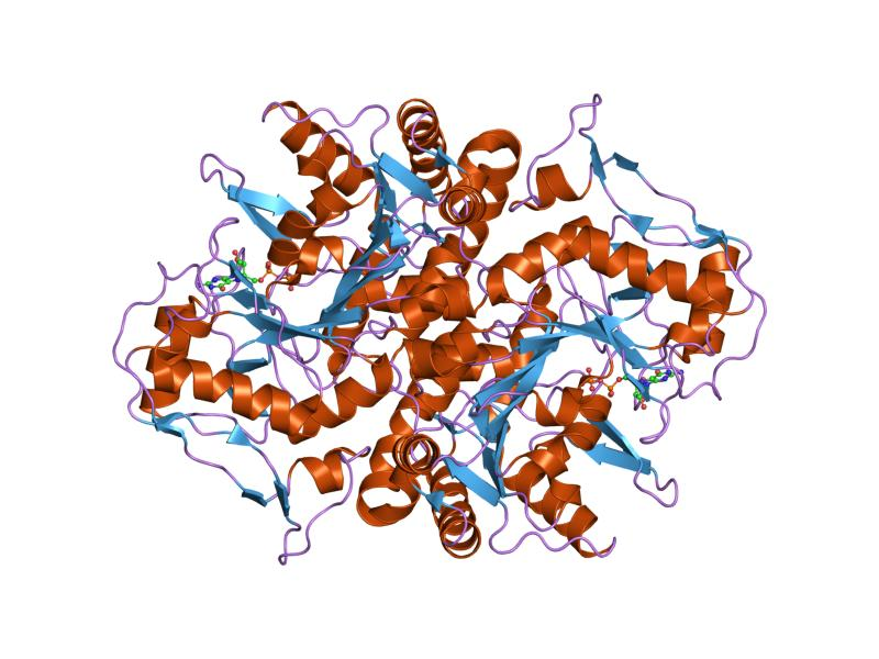 Cartoon representation of the molecular structure of protein registered with 1dj3 code.